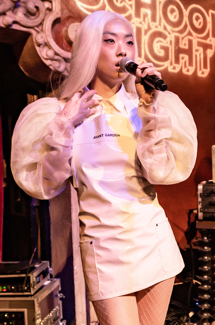 Rina Sawayama performing like at School Night at Bardot Hollywood in Los Angeles, California, on Monday, April 30, 2018.